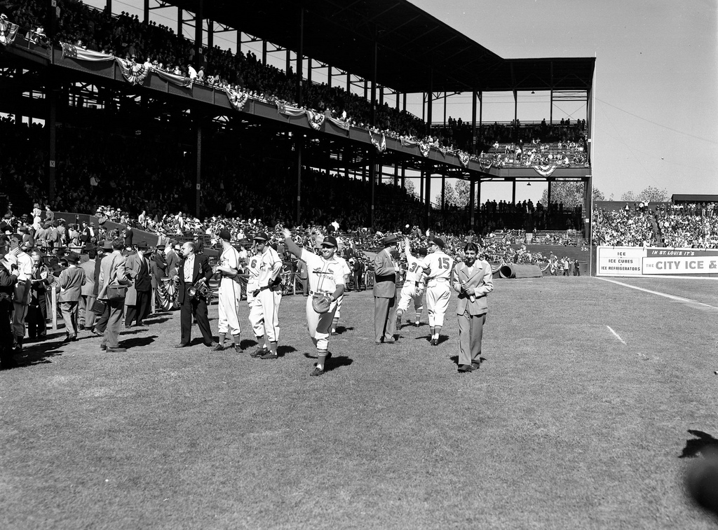 Collection Name: Commerce and Industrial Development Collection Photographer/Studio: Massie, Gerald Description: Members of the St. Louis Cardinals warm up before a World Series game against the Boston Red Sox at Sportsman's Park in St. Louis. Coverage: United States - Missouri - St. Louis - St. Louis City Date: 1946 Rights: Copyright is in the public domain. Credit: Courtesy of Missouri State Archives Image Number: CID_024_083 Institution: Missouri State Archives